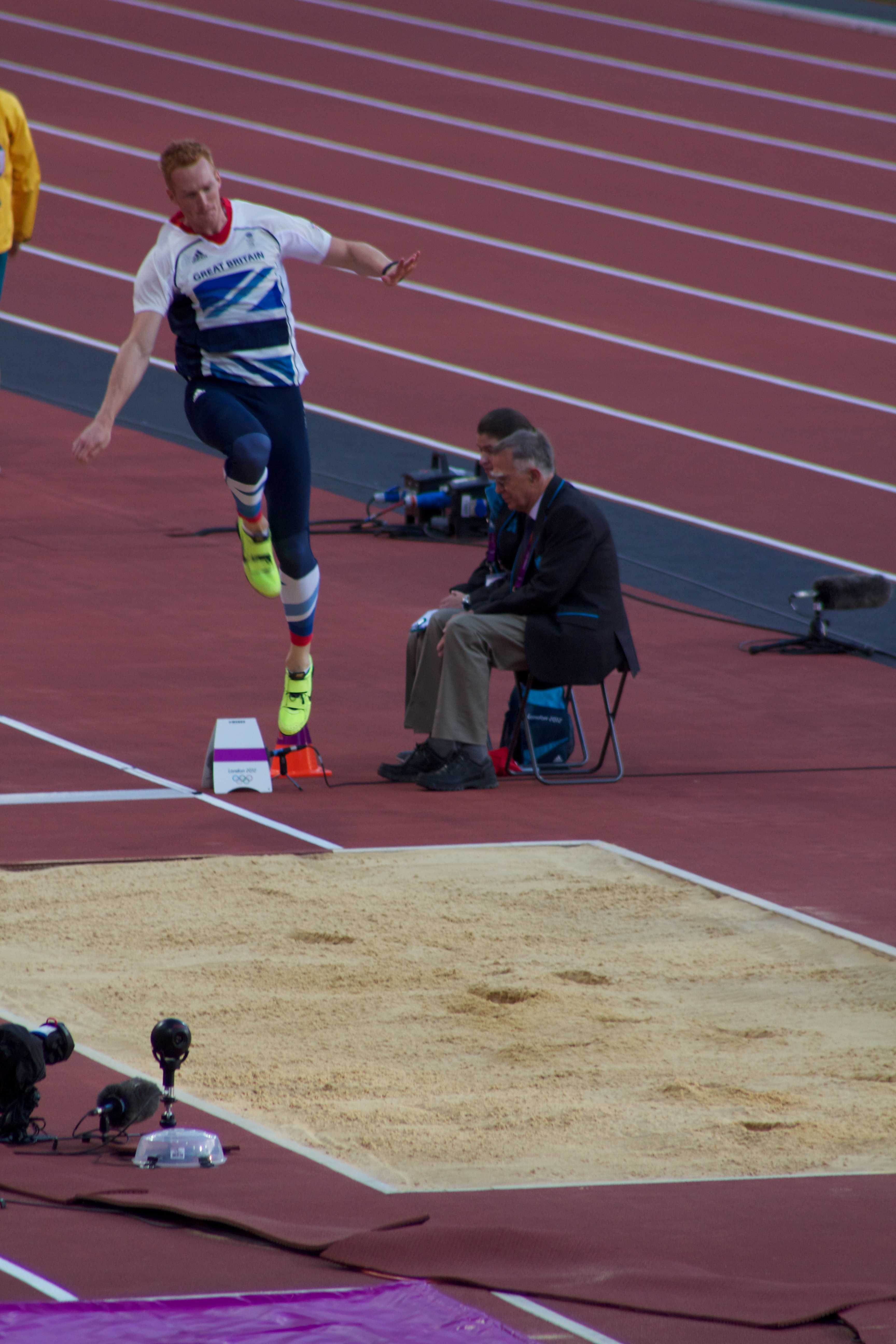 Long Jump Final - Greg Rutherford